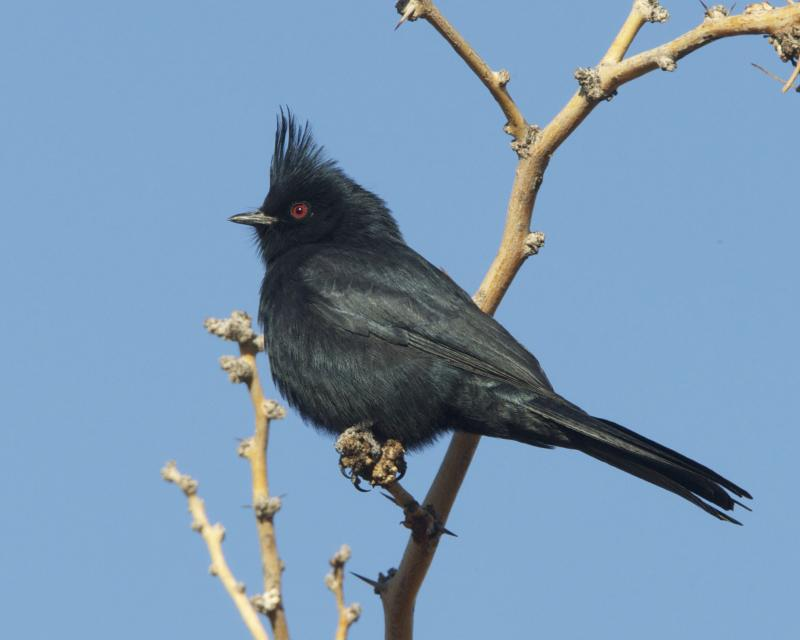 Phainopepla male Phainopepla nitens Corn Creek, Nevada, USA November 9th. 2010 Seen in flight: Distribution: 690V4713